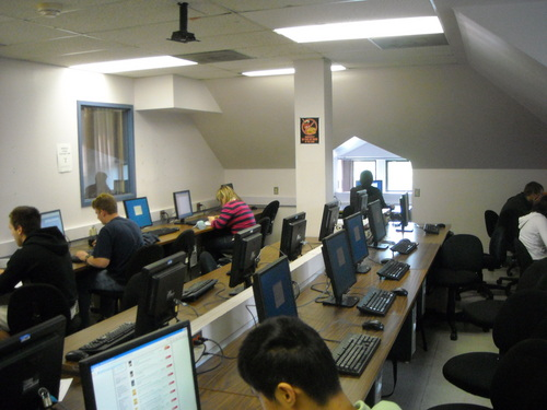 Penfield Computer Lab of the John Abbott College